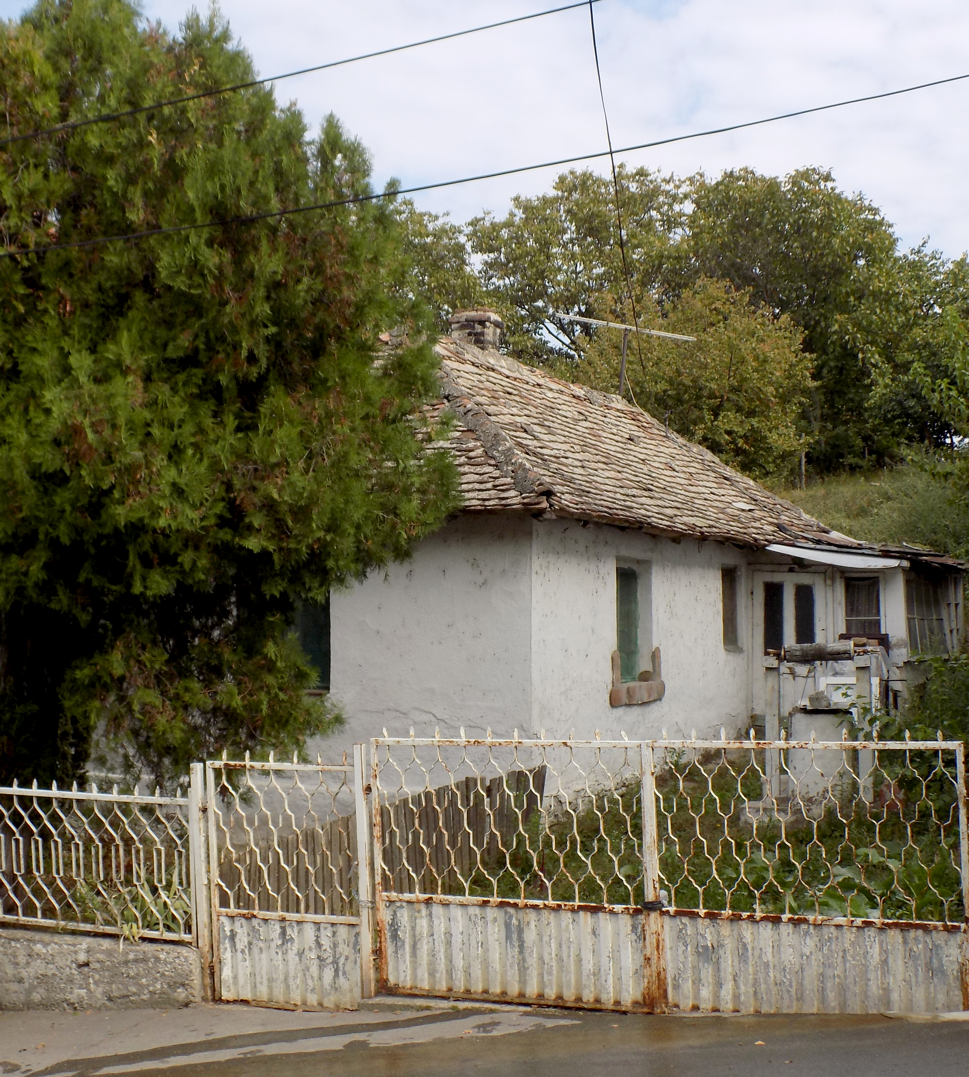 Old house near Grocka's Čaršija (Grocka, a town near Belgrade)